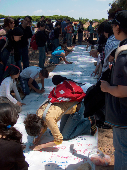 Meeting in Miska, 2007